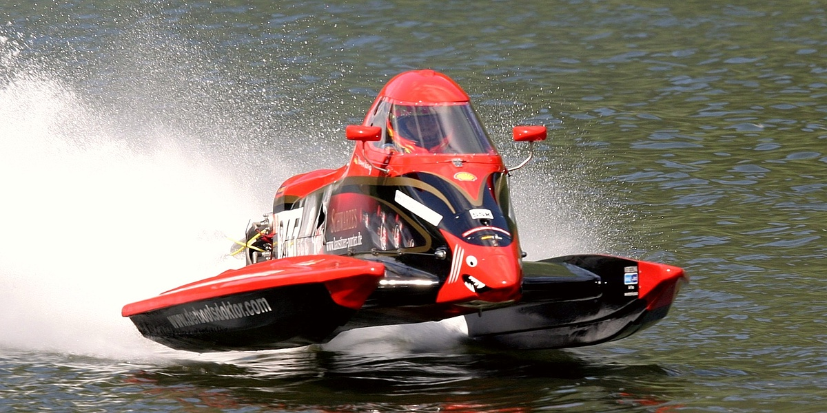 Safety cockpit of a tunnel hull in Formula 500